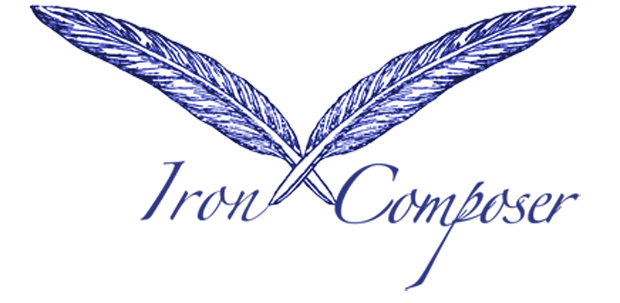 The logo for Iron Composer, designed by Joe Drew, the competition's founder.